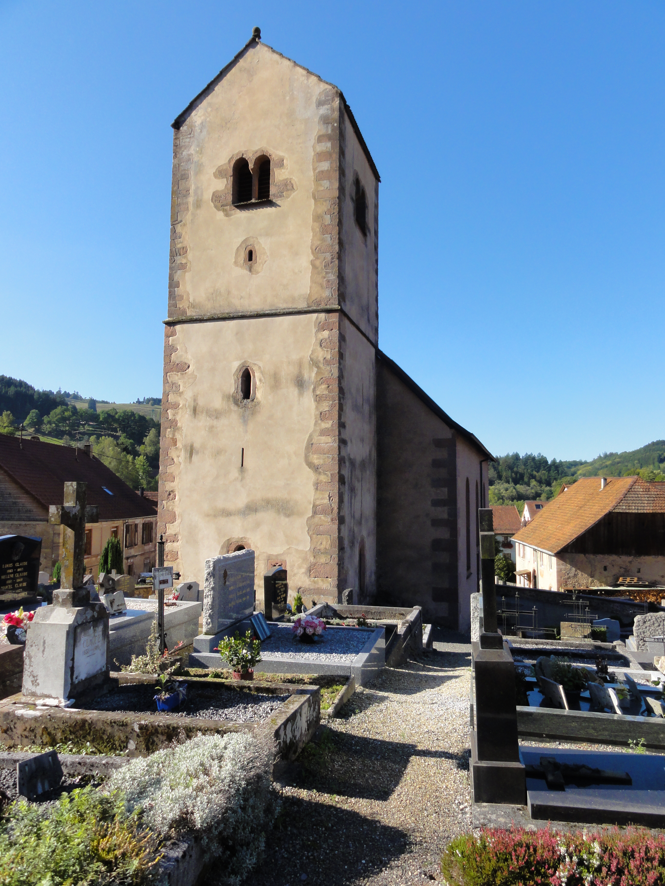 Alsace, Bas-Rhin, Fouday, Église protestante (PA00084597, IA67013097).